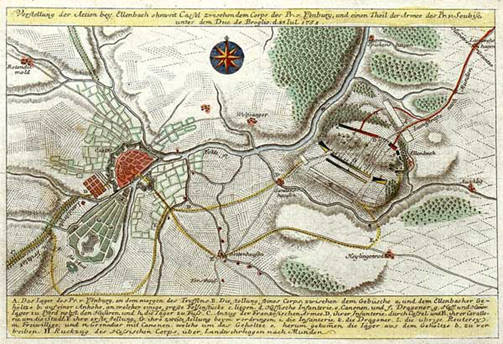 Map of the Battle of Sandershausen